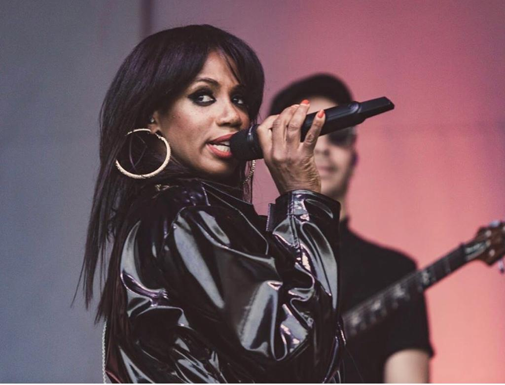 Shaznay Lewis, from All Saints (Girl Group)